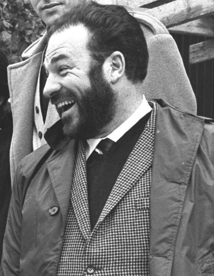 The art director of the Khan Theatre group Philip Diskin (L). L-R, Zur Shapira, Neomi Grinbaum, Aharon Almog, Saviona Ben Yaakov, Yoram Cohen, Jacques Cohen.